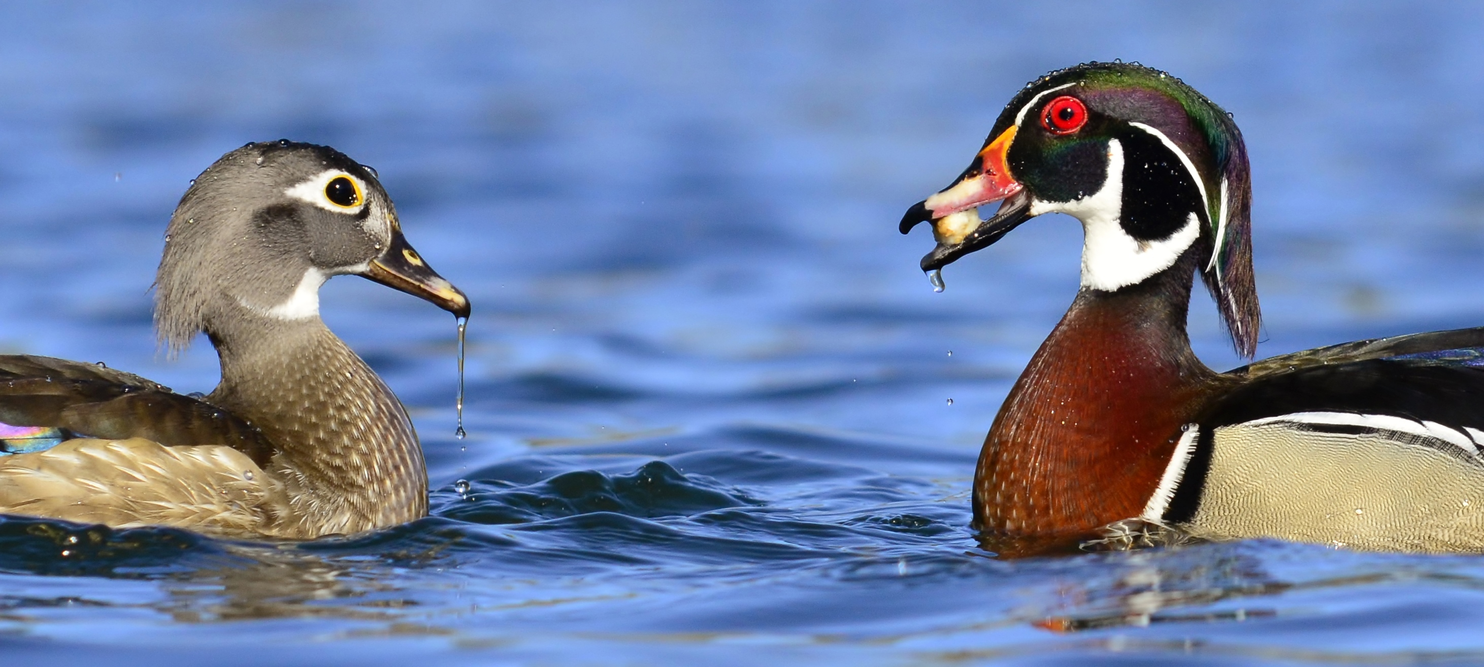 Blowing Rock, North Carolina, USA